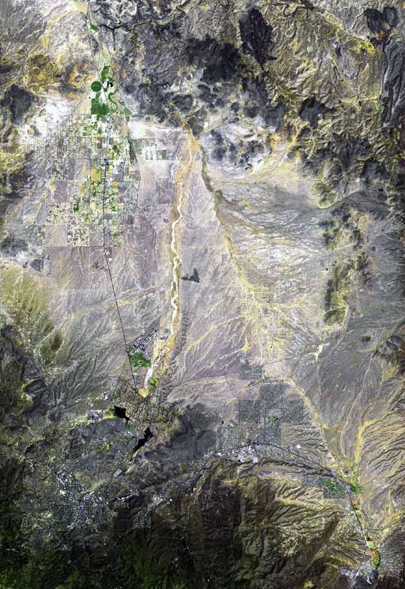 Satellite image of central Yavapai County, Arizona. Includes Prescott, Prescott Valley, Chino Valley and surrounding areas.